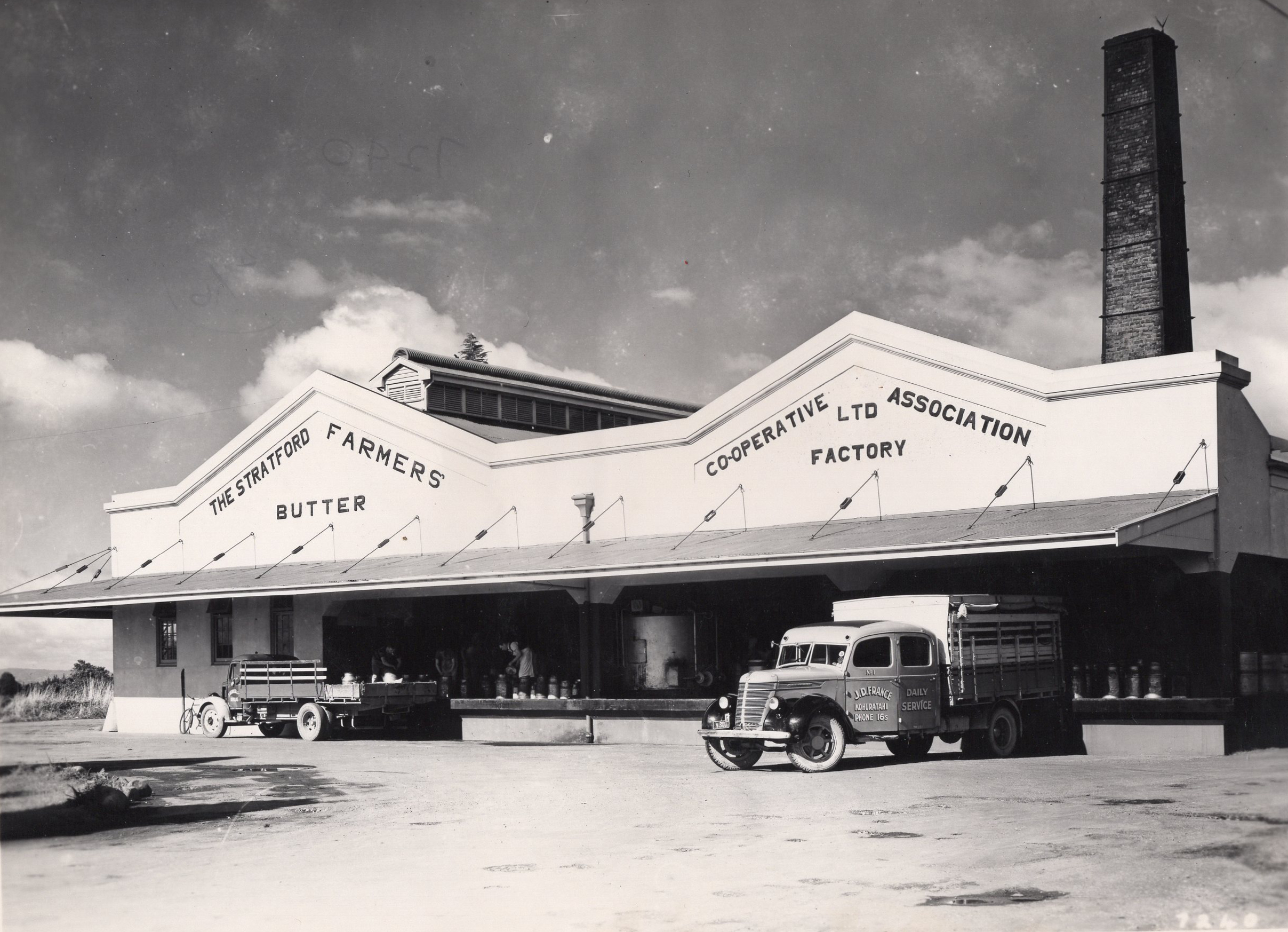 Archives New Zealand Reference: AAFZ 6329 W3302 Box 49